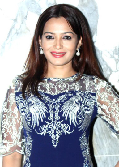 Samiksha Bhatnagar graces the special screening of Poster Boys.